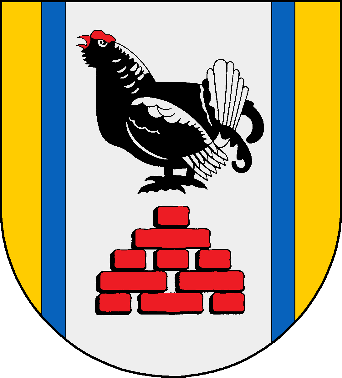 Coat of arms of the municipality Lottorf in Schleswig-Holstein, Germany.